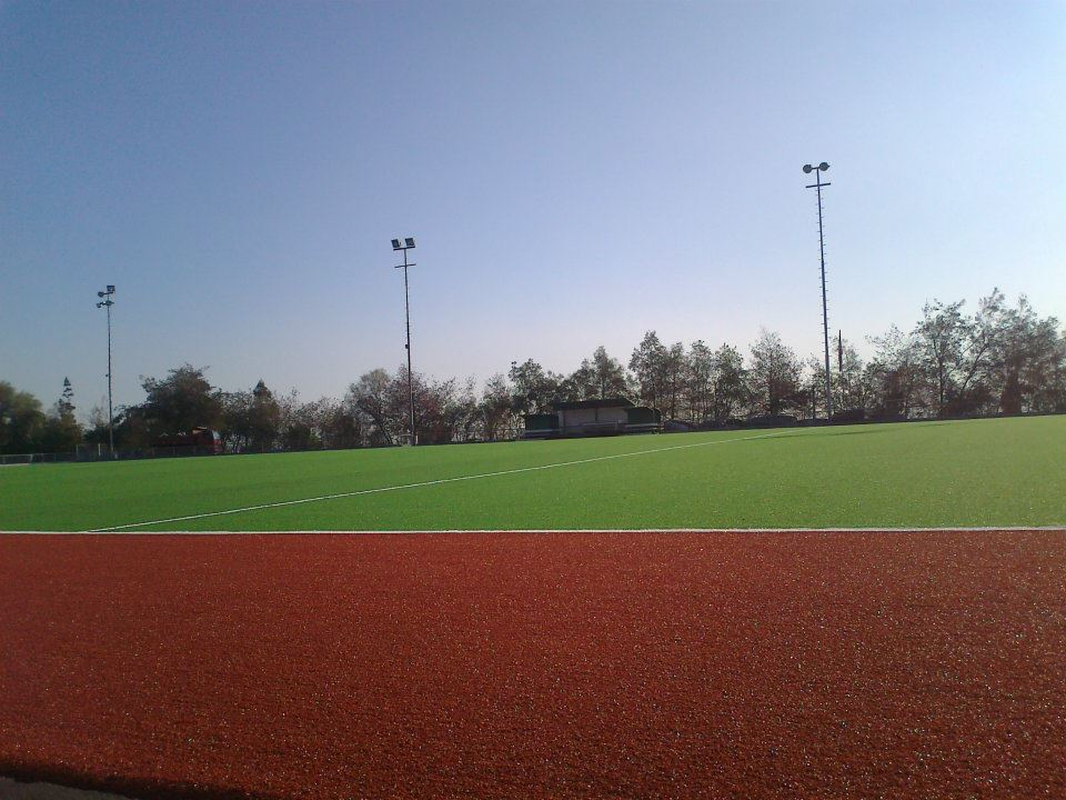 Cancha Sintética de Agua Hockey Césped , San Carlos de Apoquindo, inagurada el 2012